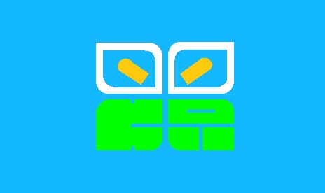 Flag of Katashina Gunma